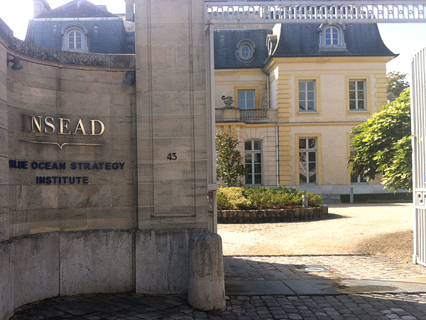 INSEAD - INSAED Blue Ocean Strategy Institute